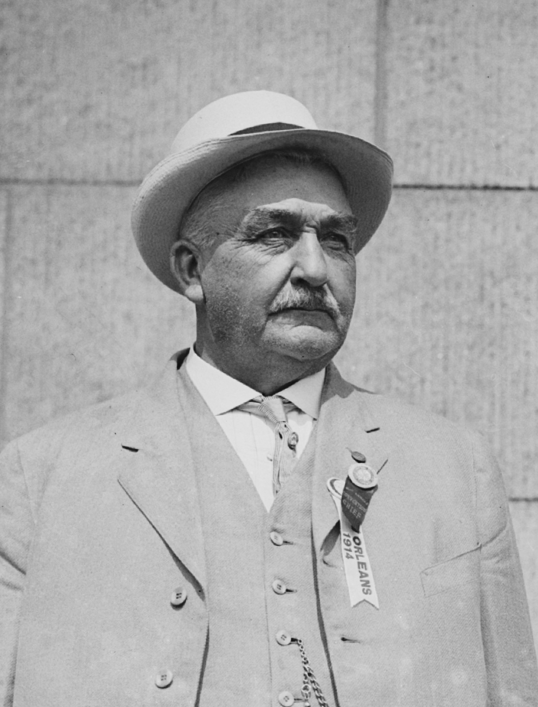 Photo shows August H. Runge (1852-1921), fire marshal of North Dakota.